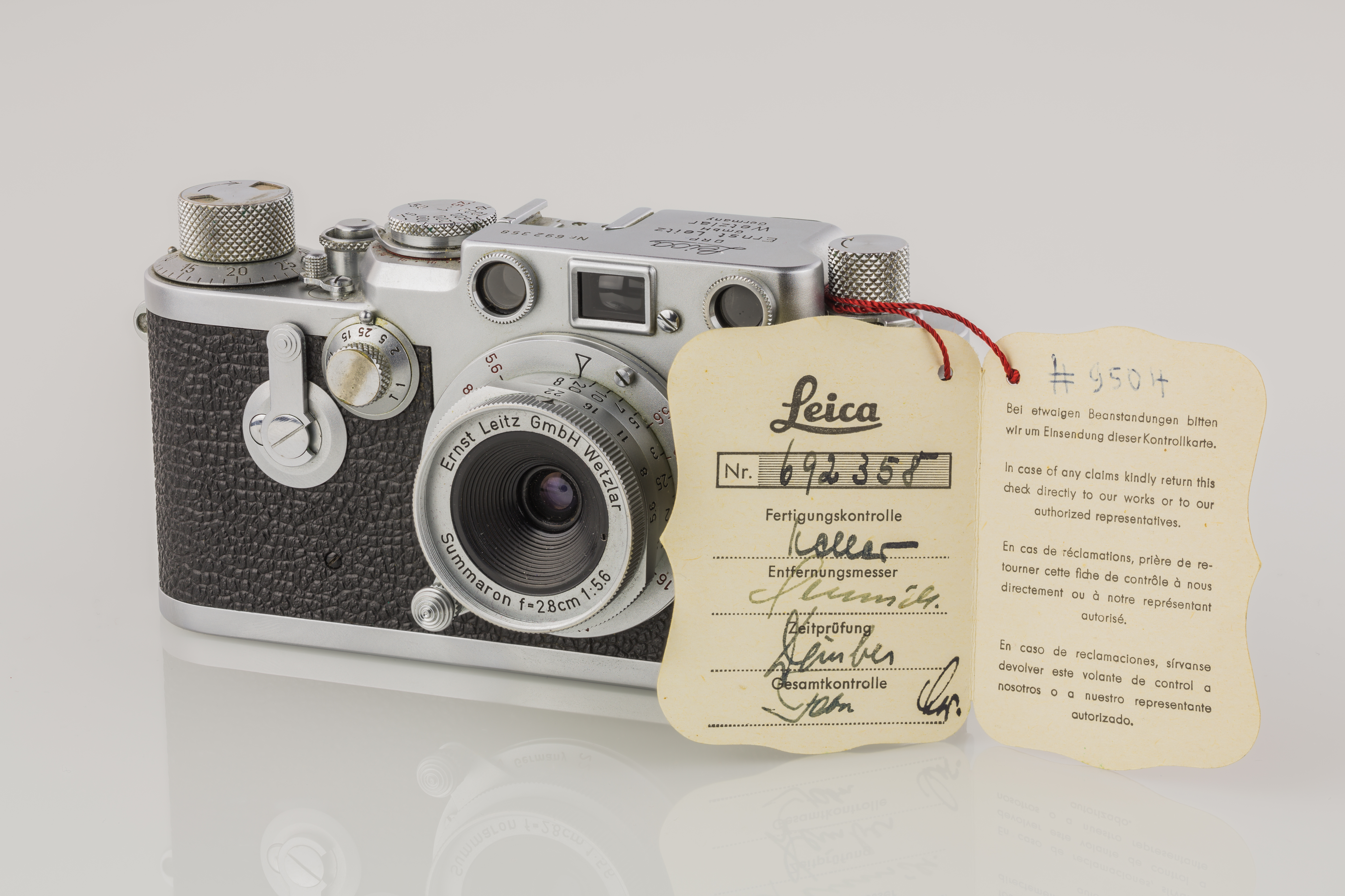 Leica IIIf Red Dial with self-timer Sn. 692358 - M39, 1954 - Mount: M39